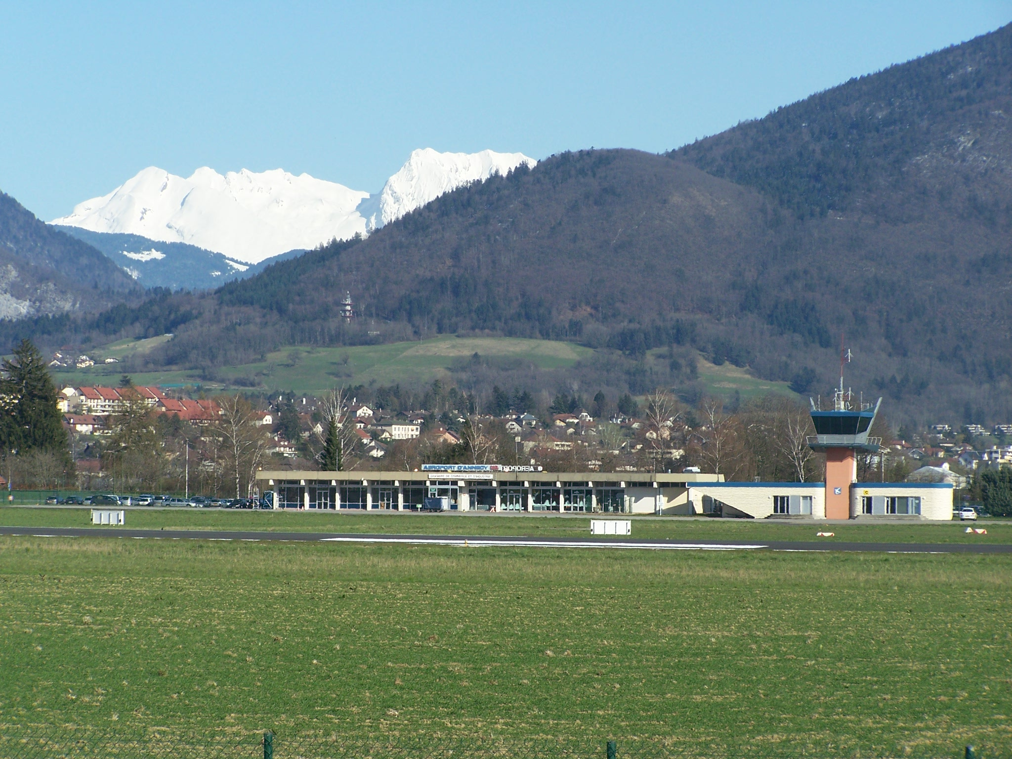 Sight of the Annecy - Haute-Savoie - Mont-Blanc airport, near Annecy in Haute-Savoie, France.